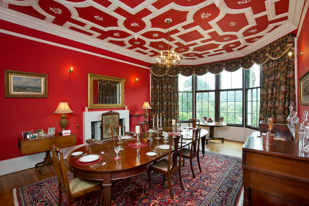 Dining Room, The Kirna, Walkerburn